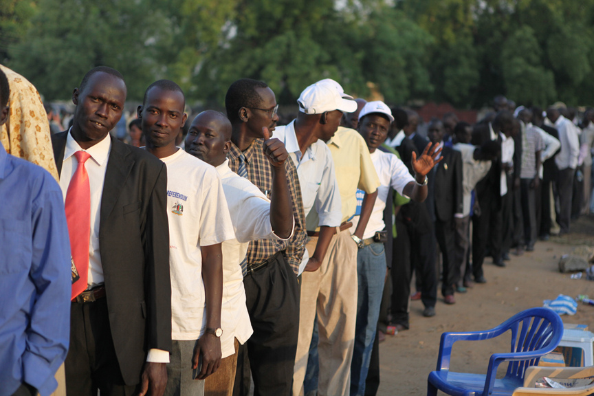 Southern Sudanese line up to vote in Juba on January 9, 2011, the first of seven days of referendum polling.